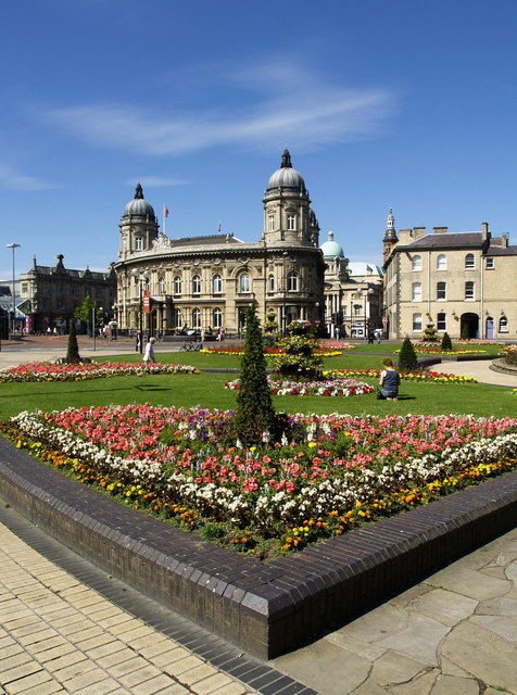 Hull Dock Offices and Queen's Gardens Fountain's Flowerbed, Hull, East Riding of Yorkshire, England.